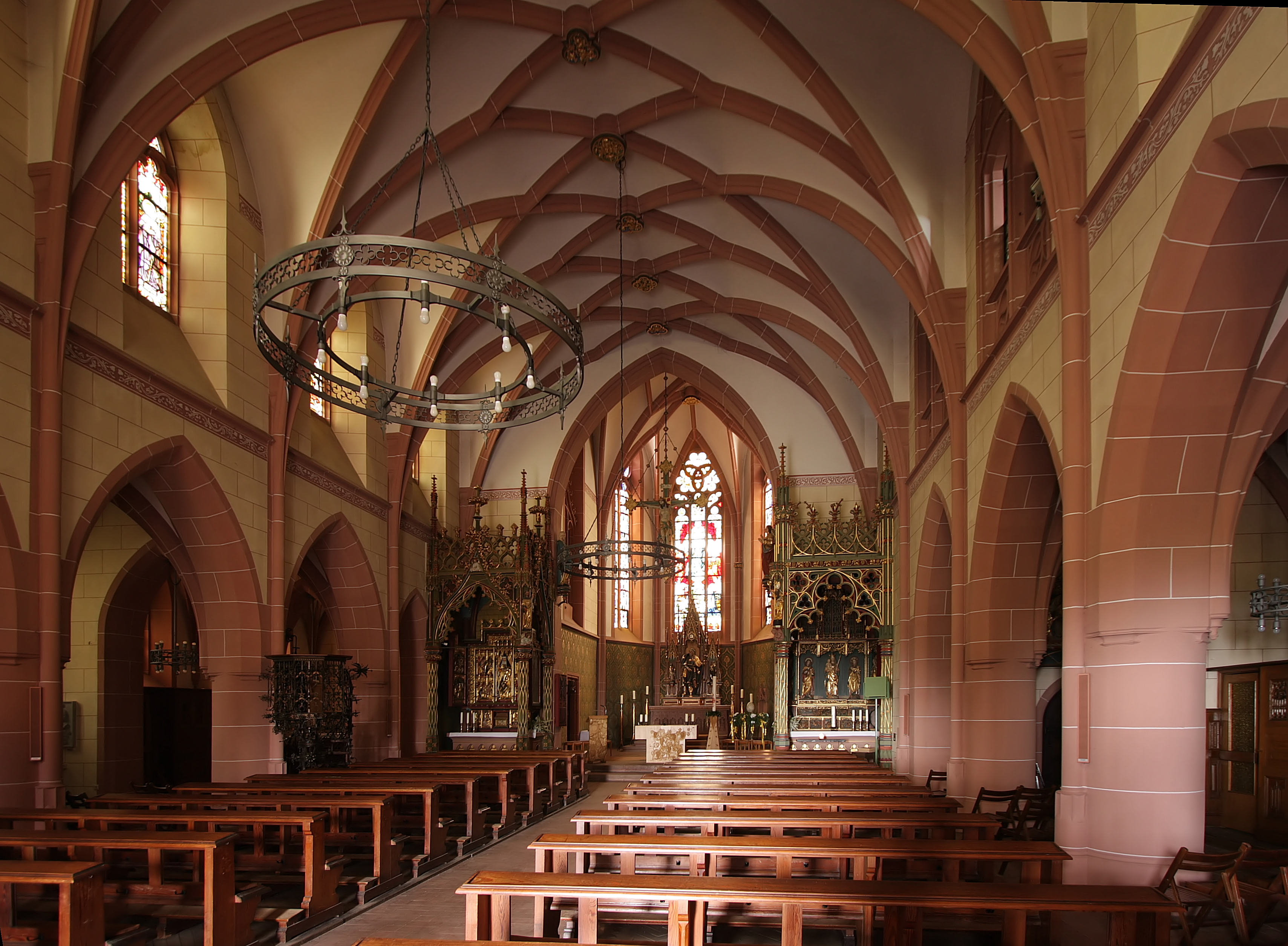 Rochus Chapel above Bingen on the Middle Rhine in Germany